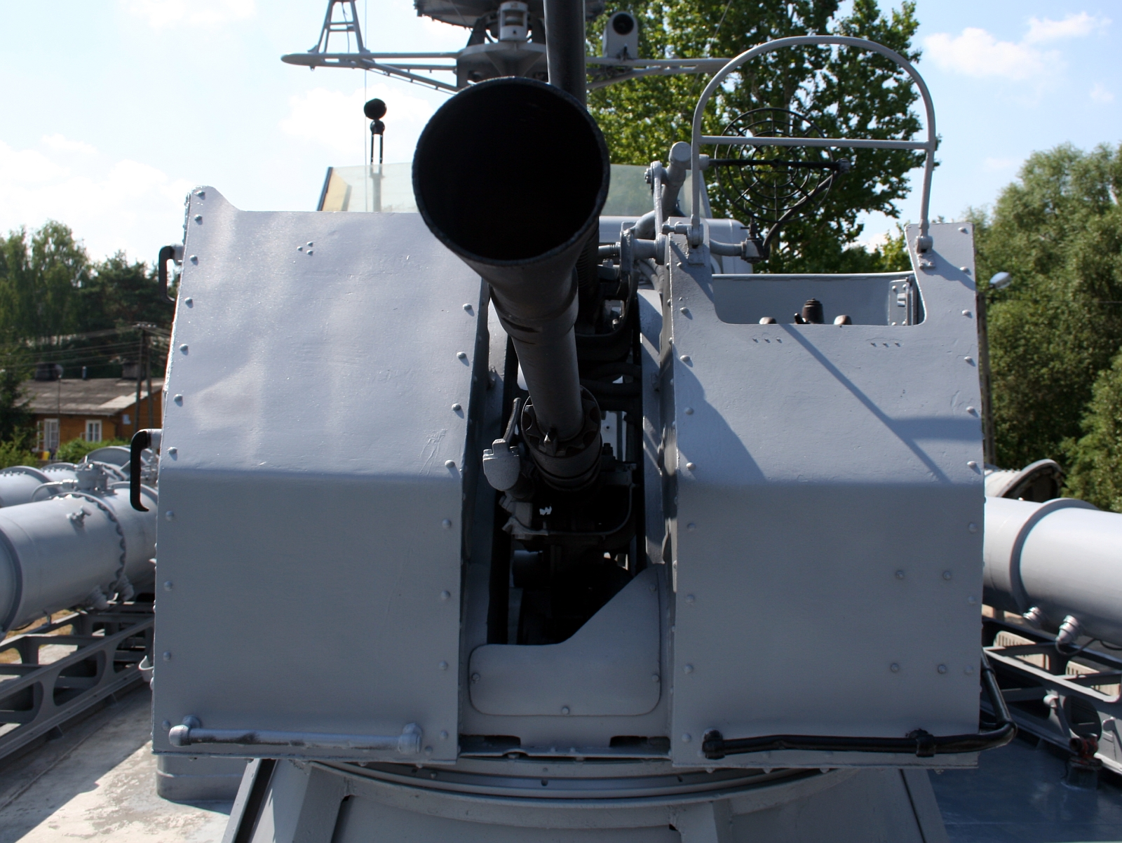 Naval gun 25 mm 2M3M on a Polish Project 664 class MTB ORP "Odważny" (in a museum, replacing correct 30 mm AK-230 gun)